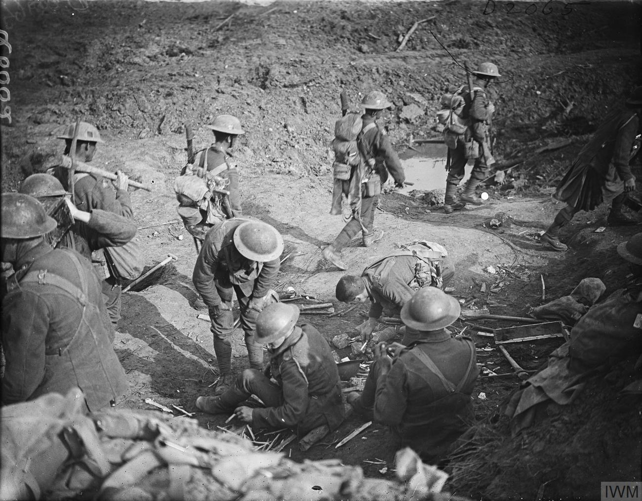 The Battle of Passchendaele, July-november 1917 Battle of Polygon Wood. Troops of the 10th Battalion, Royal Welch Fusiliers, drawing picks at Clapham Junction before the attack on Zonnebeke, 25 September 1917.